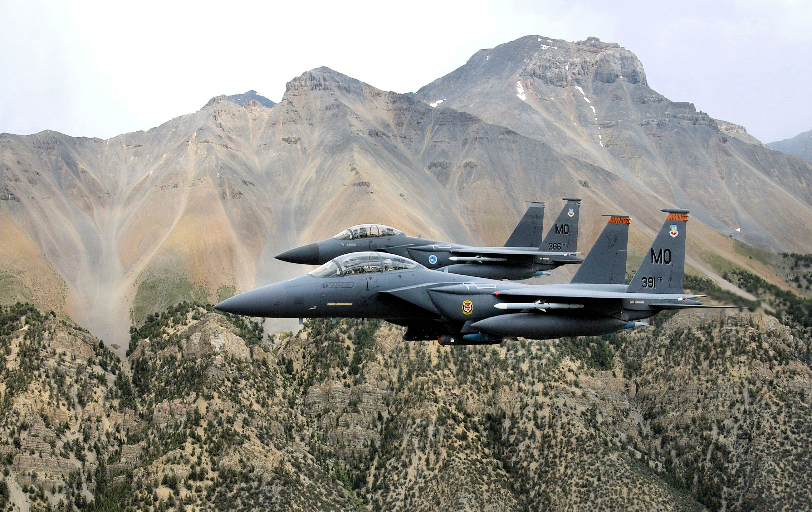 F-15s of the 366th Fighter Wing over Idaho